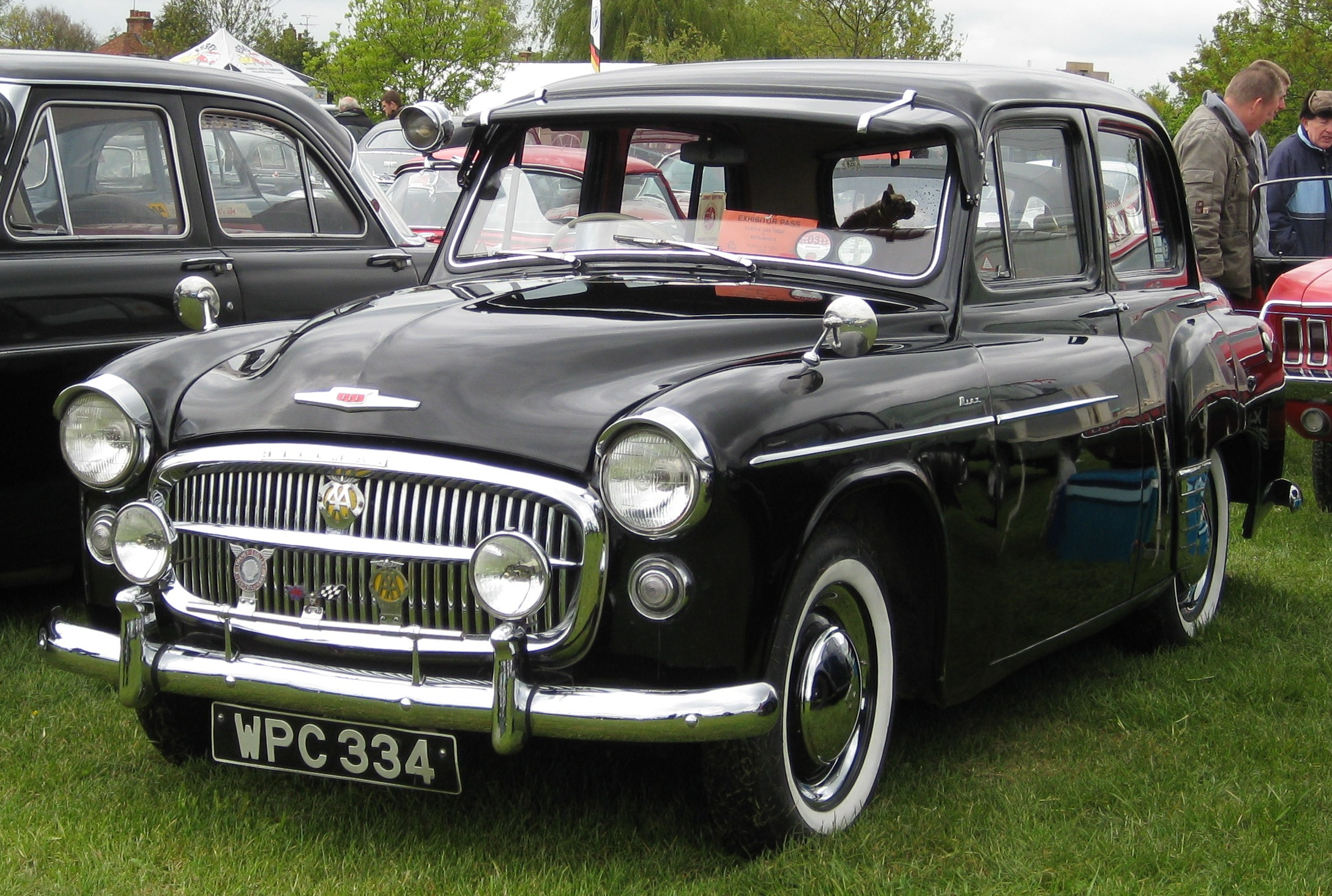 Hillman Minx Mark 8 at Battlesbridge Classic Car Show